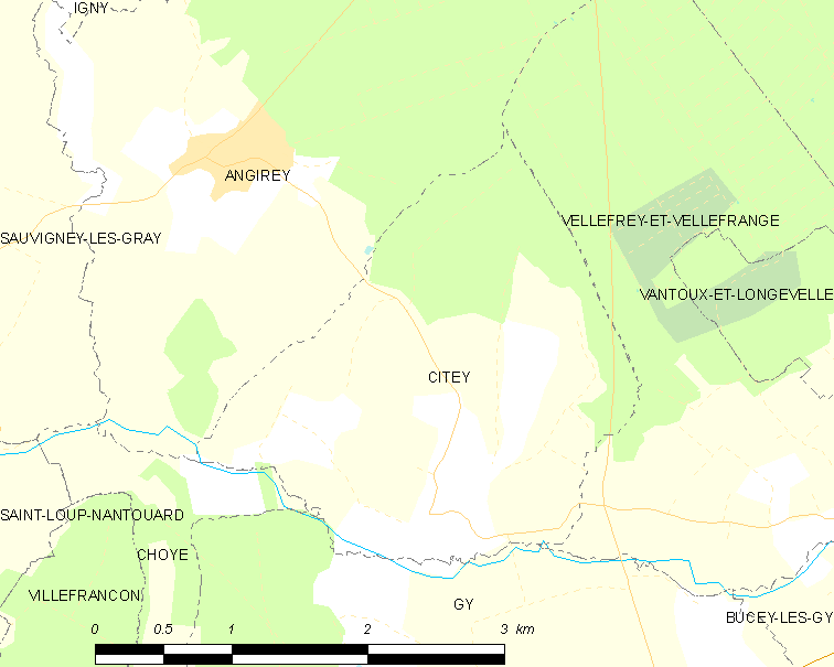 Map of French municipality